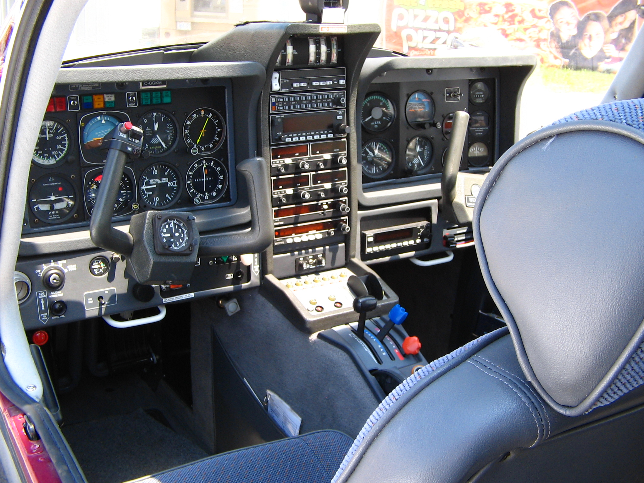 A Socata TB 20 from Day Trips Canada